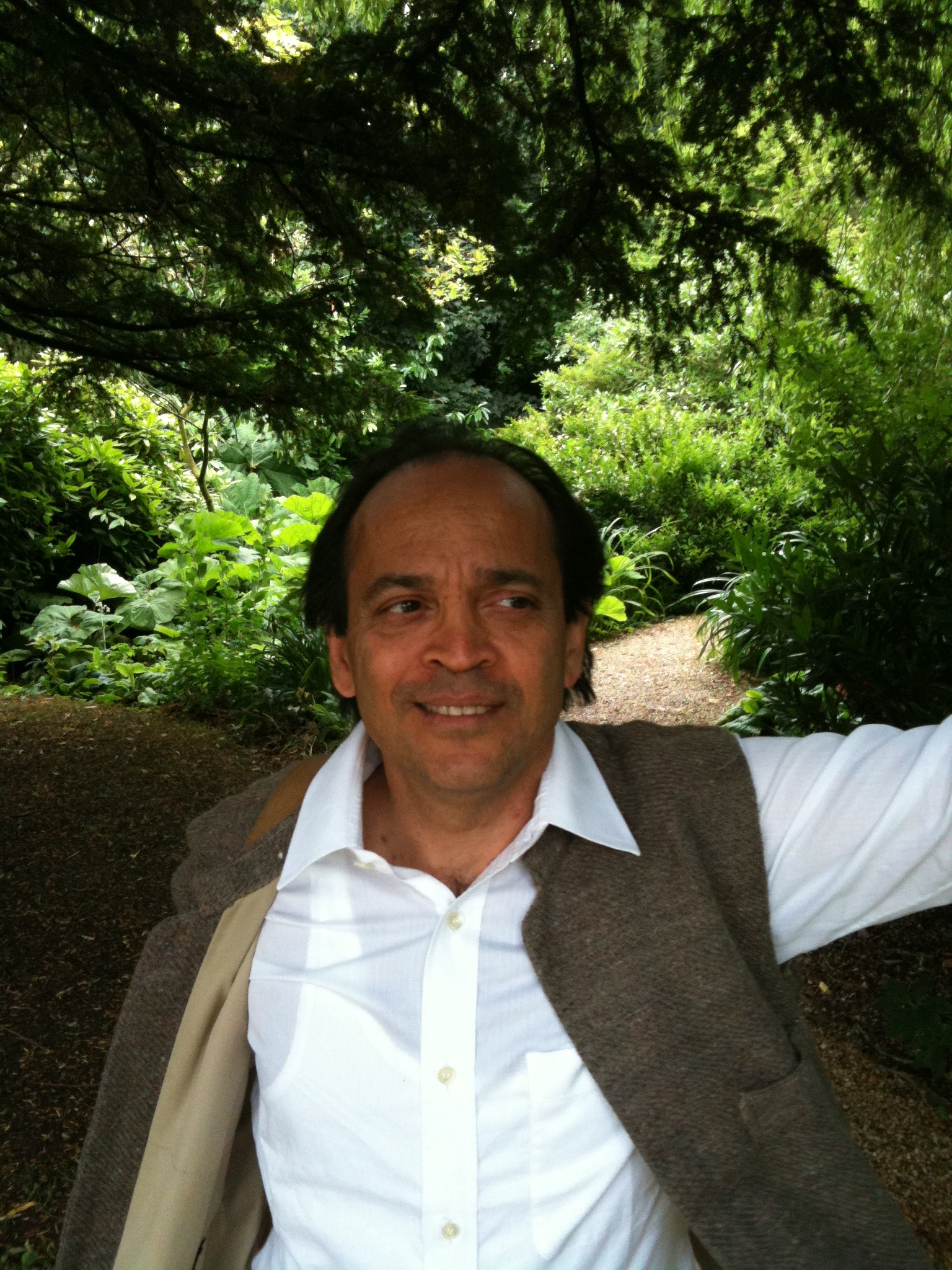 Vikram Seth, in Oxfordshire at Le Manoir Aux Quat Saisons